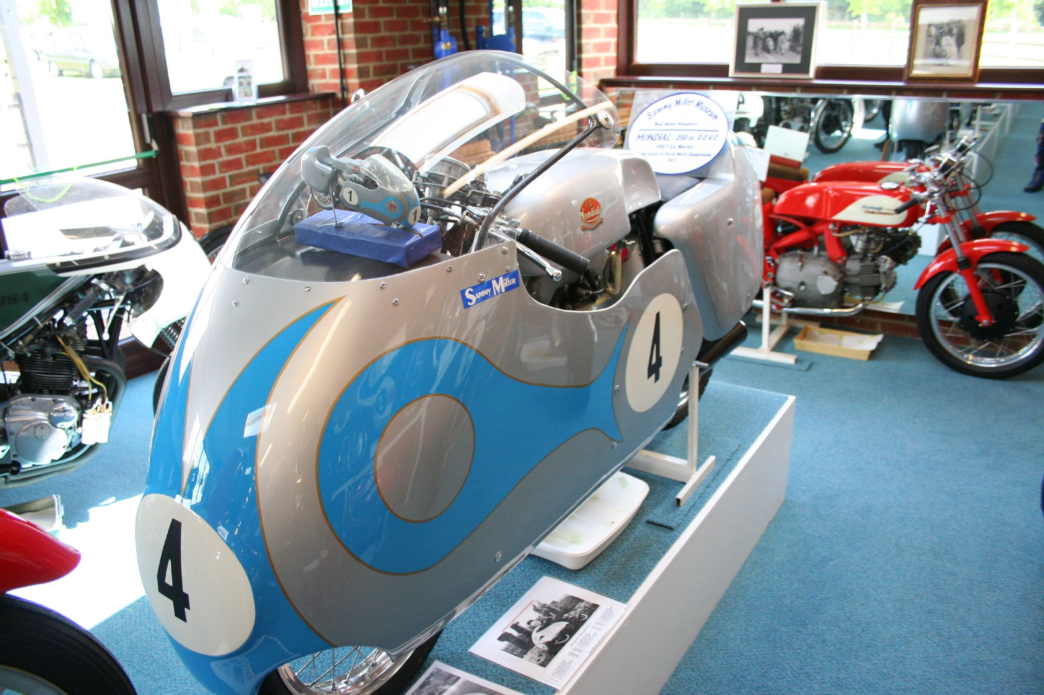 A 250cc Mondial wich was ridden by Sammy Miller, probably during 1957